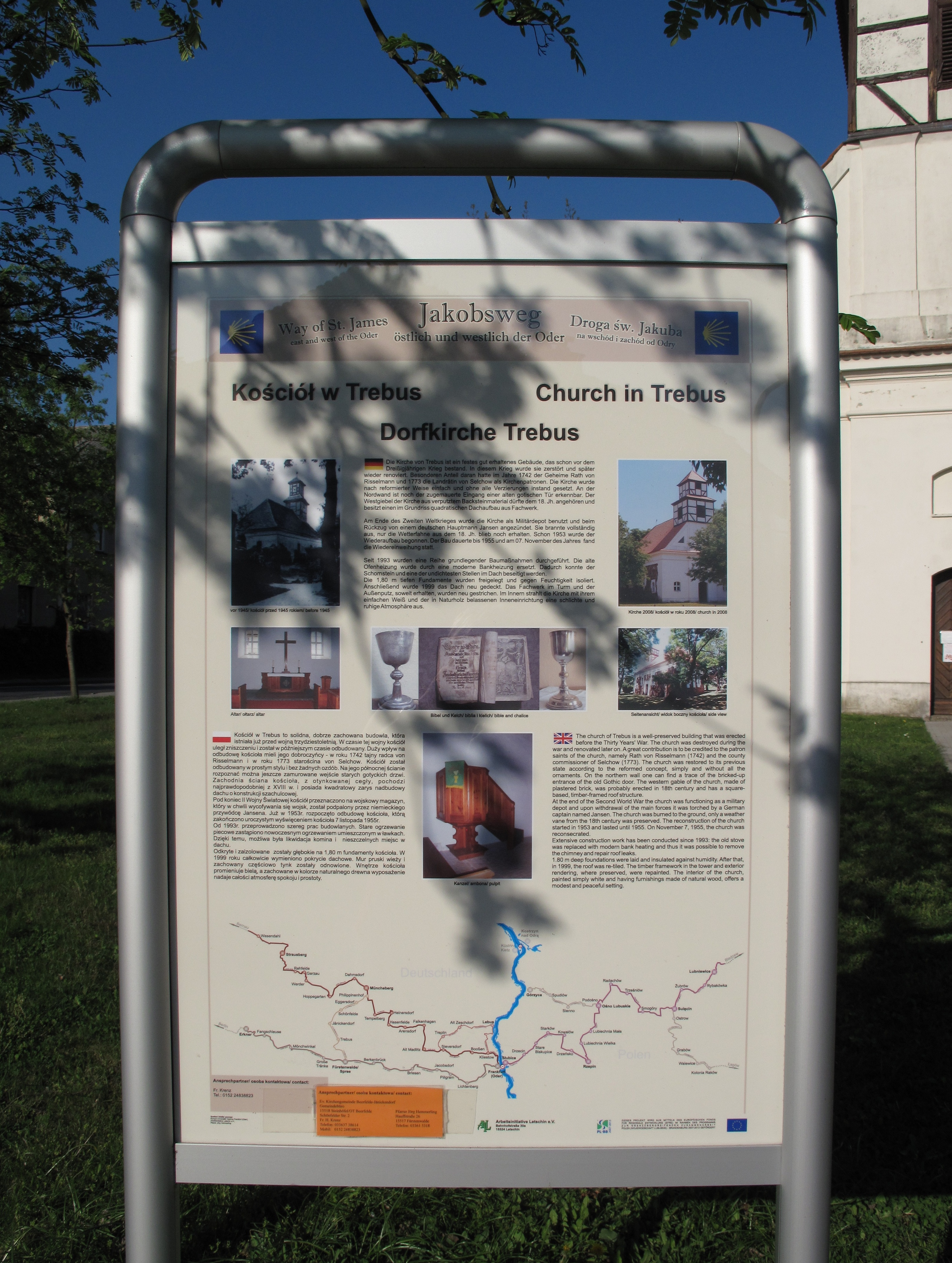 Information board. Listed village and Fieldstone church in Trebus. Trebus is a part of Fürstenwalde/Spree in the district Oder-Spree, state Brandenburg, Germany.